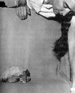 Barbara Harrisson, behind the Niah Skull, December 27, 1958.